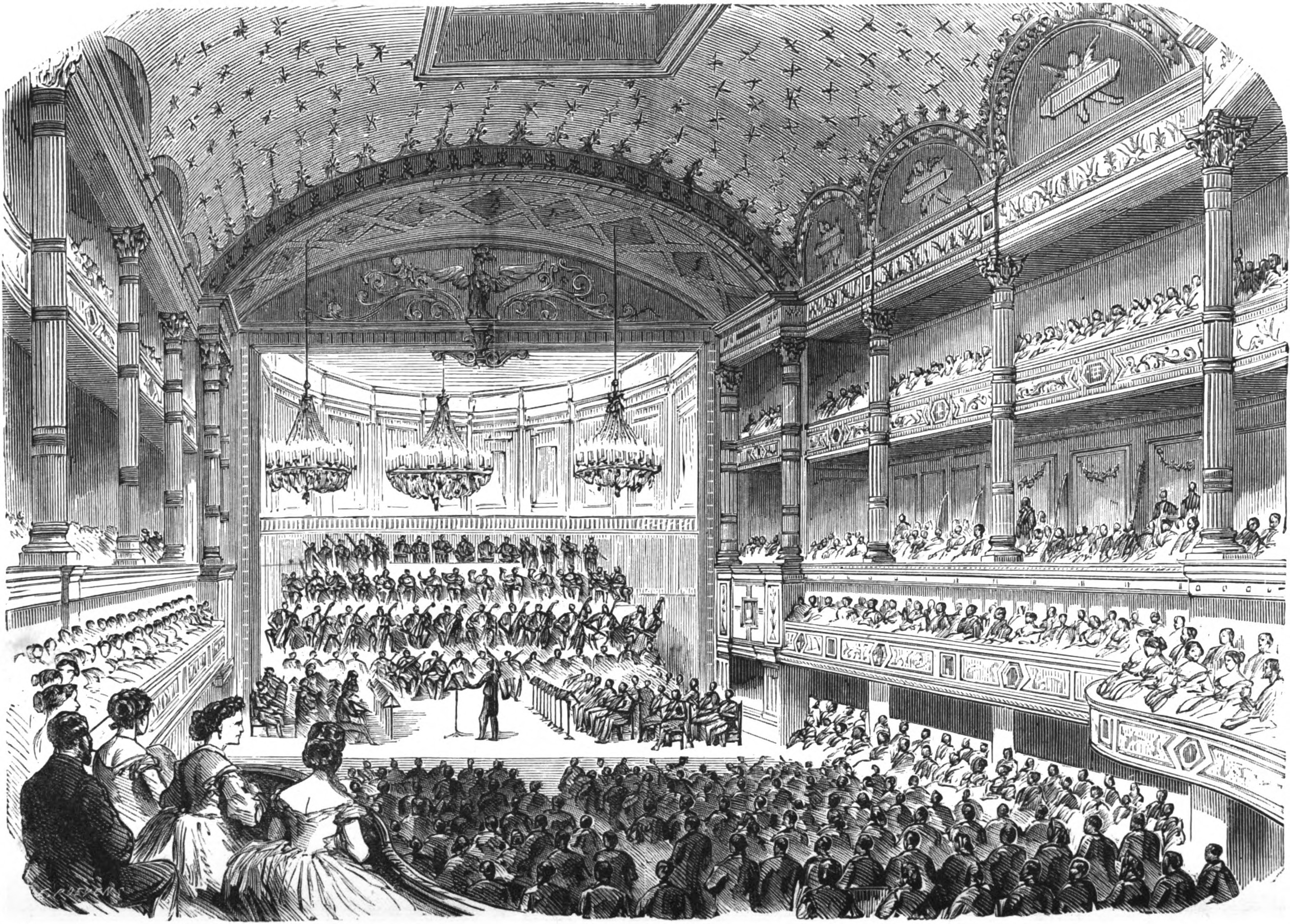 A performance in the concert hall of the Paris Conservatory of Music (presumably after the renovation of 1864)